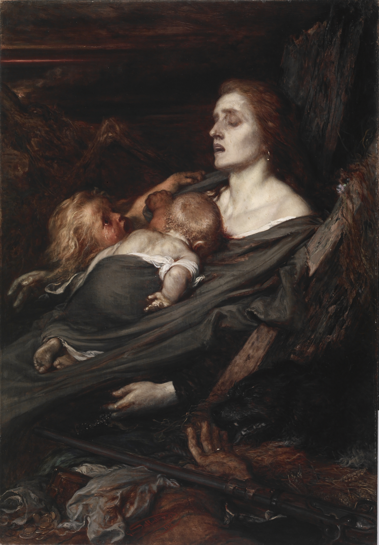 When this pair of allegorical paintings (together with Walters 37.119) was completed in 1872, a Belgian critic wrote: M. Gallait just finished two paintings forming a pendant pair that rank among the best things he has ever done. They are allegories of peace and war, but allegories conceived in a new order of ideas, substituting living reality for imaginary abstractions. . . . The critic concluded with this ringing endorsement: "Peace" and "War" are about to leave for London. Let's hope that after appearing in an academic exhibition, where they are expected, these two compositions will return to Belgium. It is not enough for them to be seen by just a privileged few; they must be seen by everyone. They will astonish even those who have the highest opinion of M. Gallait's talent. [Feuille de Tournai, April 21, 1872] An exhaustive catalogue on the artist published in 1987 to accompany an exhibition organized by the Musée des Beaux-Arts in Tournai described these paintings as "whereabouts unknown." Evidently, the pendant pair never returned from London, as the Belgian critic had hoped, but instead made their way to join William Walters' growing collection of contemporary art, where they have remained ever since.